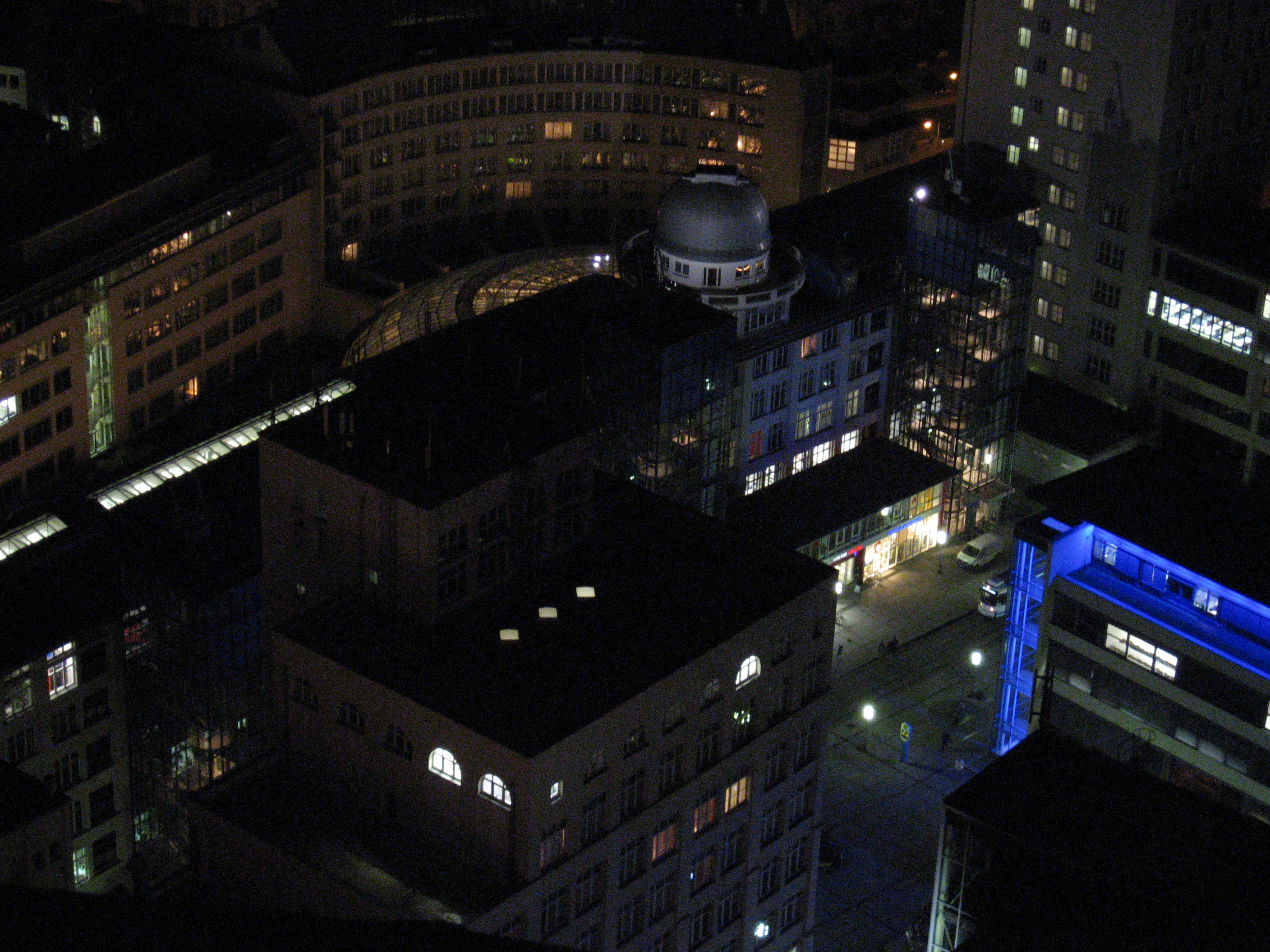 Jena: nighttime view from the viewing platform of the Jen-tower, showing part of the former Carl-Zeiss works (now used by the University of Jena)